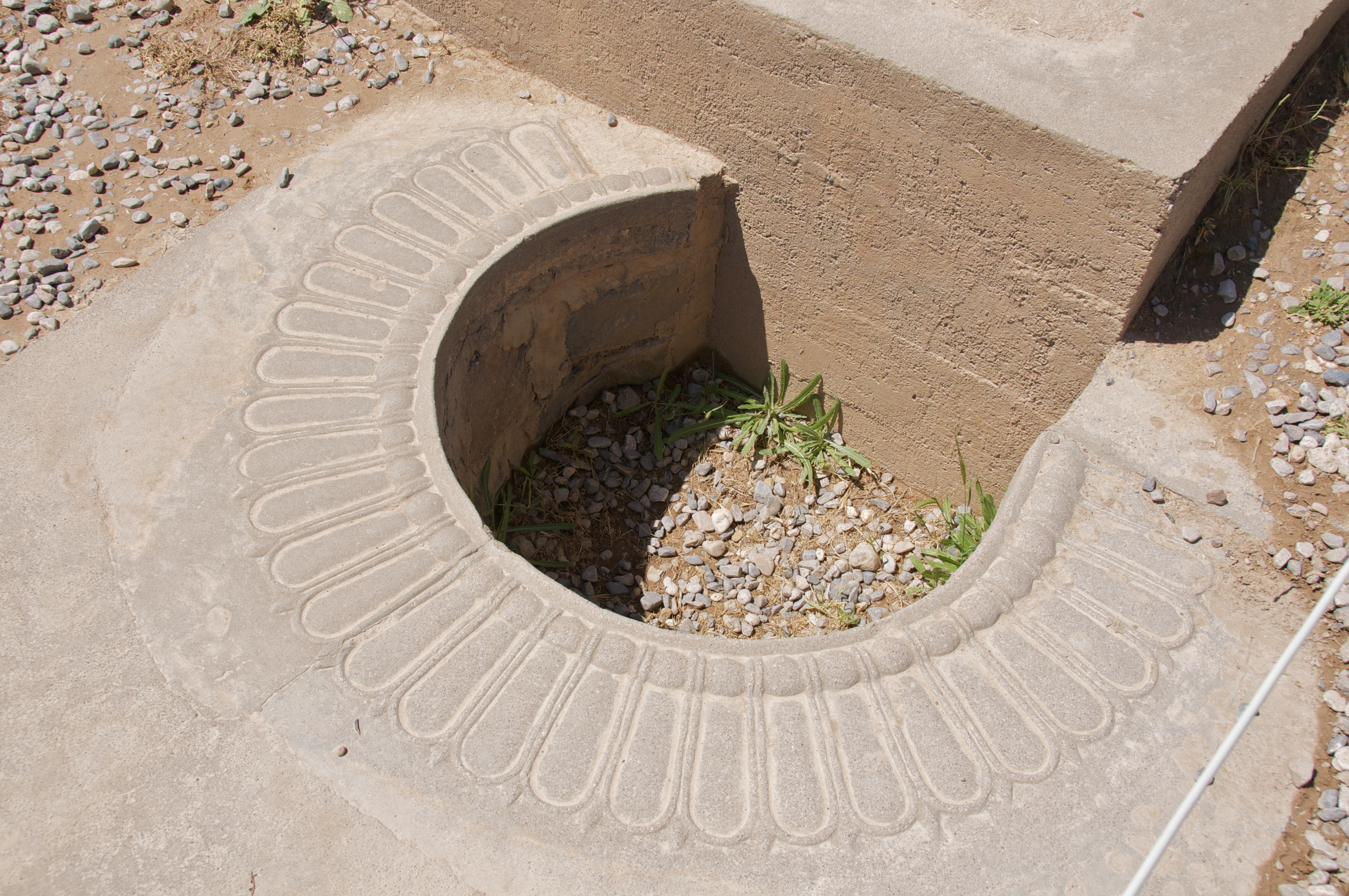 Like most things at Persepolis, even humble items such as this door-post socket are far larger than life. The door that fitted this socket must have been enormous and tremendously heavy. I wonder whether any sort of lubricant was applied to the hinge. . .